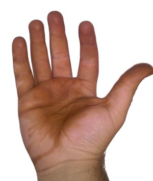 Picture of my right hand showing staining from crushing husked walnuts in my hands the night before.